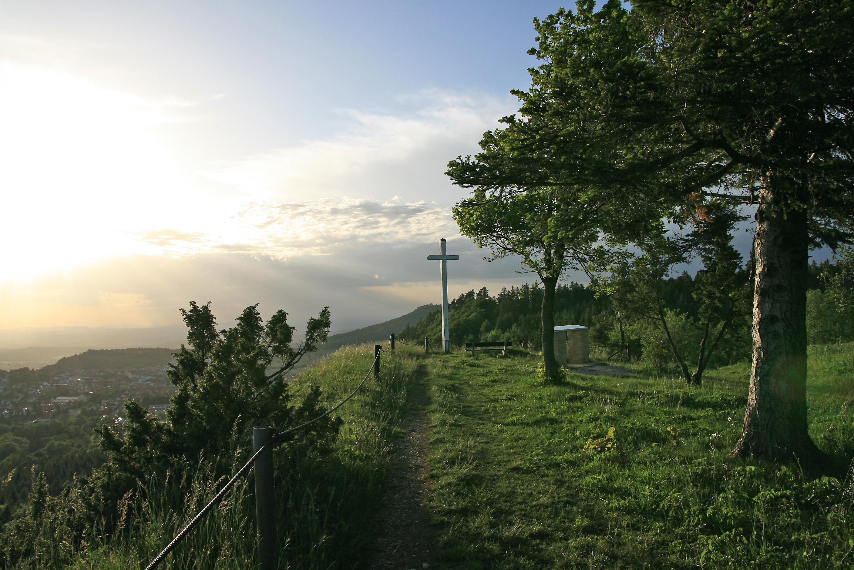 Trail to the White Cross on top of Kehlen